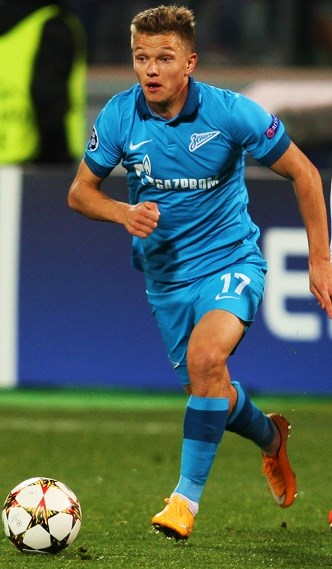 Oleg Shatov